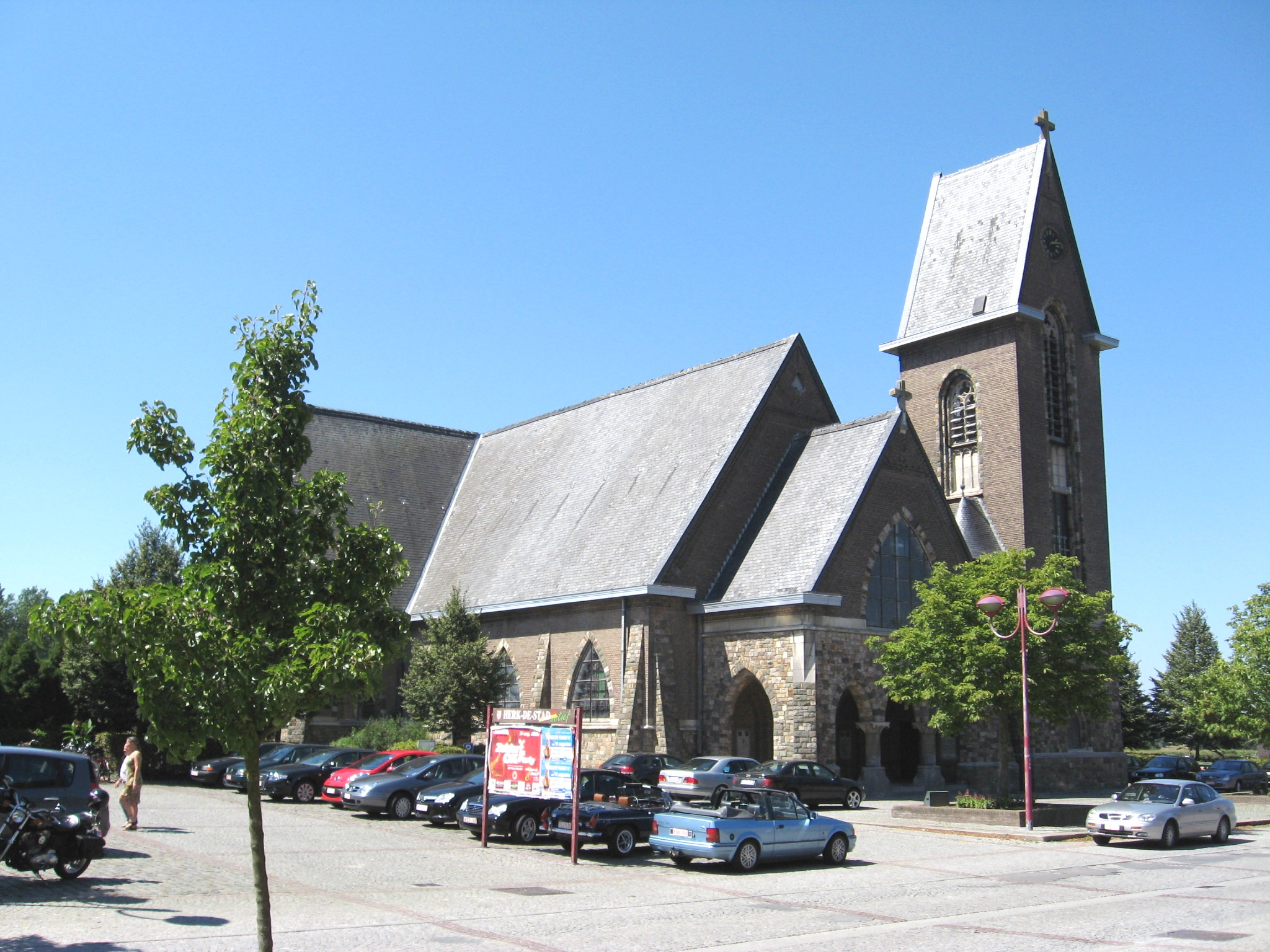 Church of Saint John the Baptist in Schulen, Herk-de-Stad, Limburg, Belgium